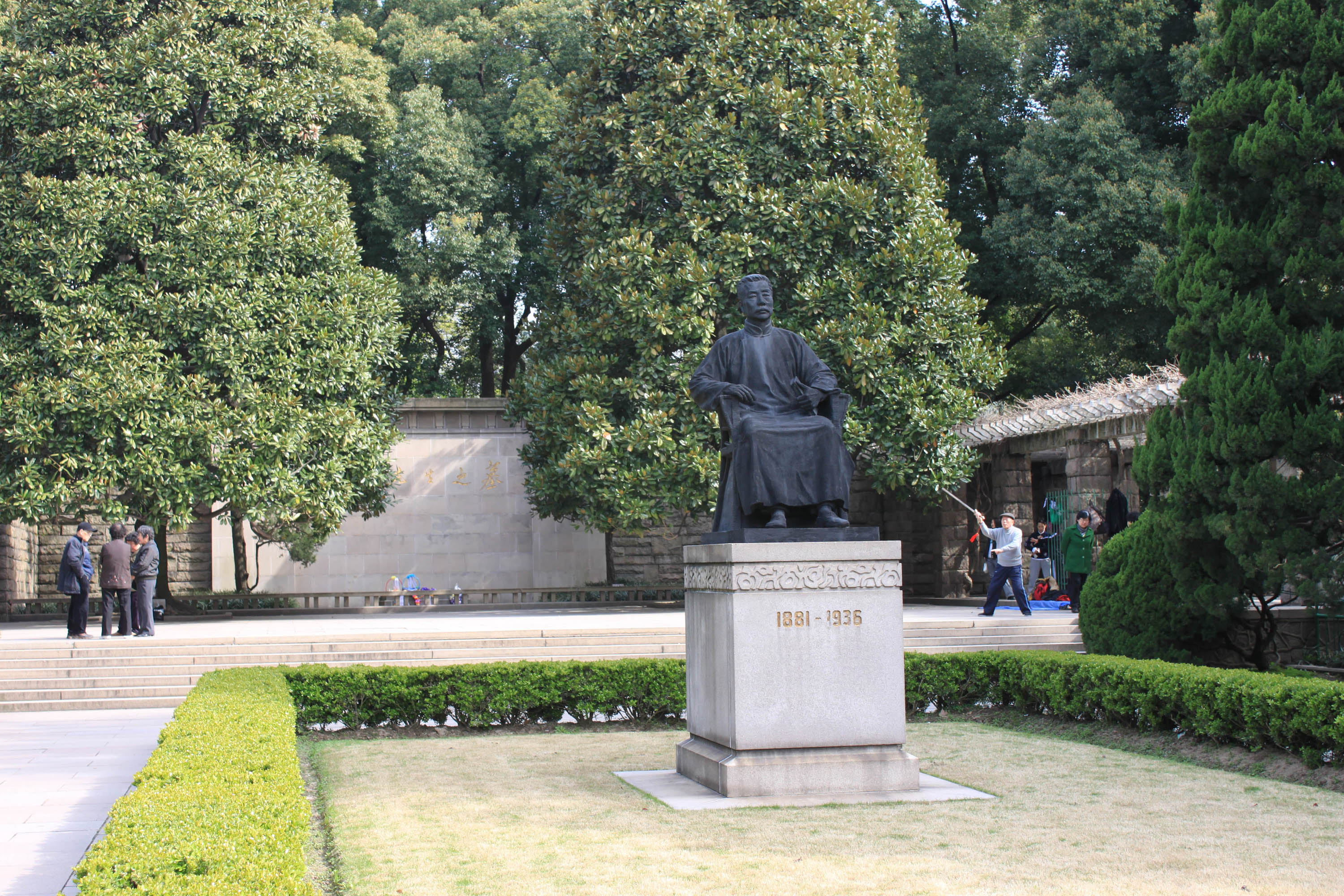 Statue of Lu Xun located in front of his grave